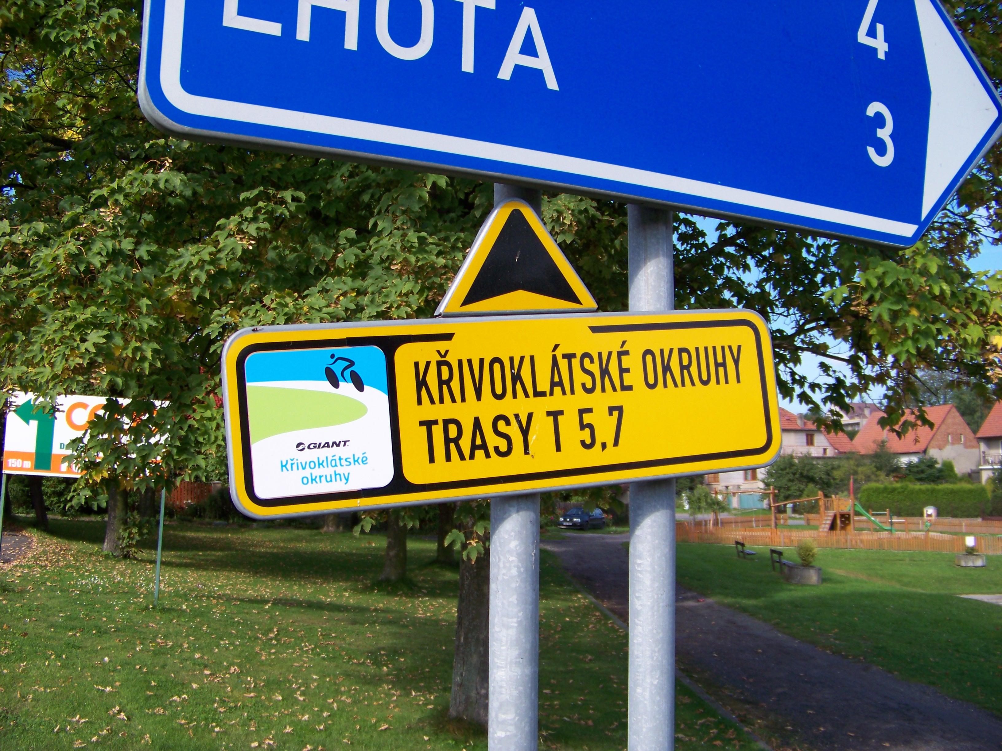 Bratronice, Kladno District, Central Bohemian Region, Czech Republic. A sign of cycling routes Křivoklát Circles.